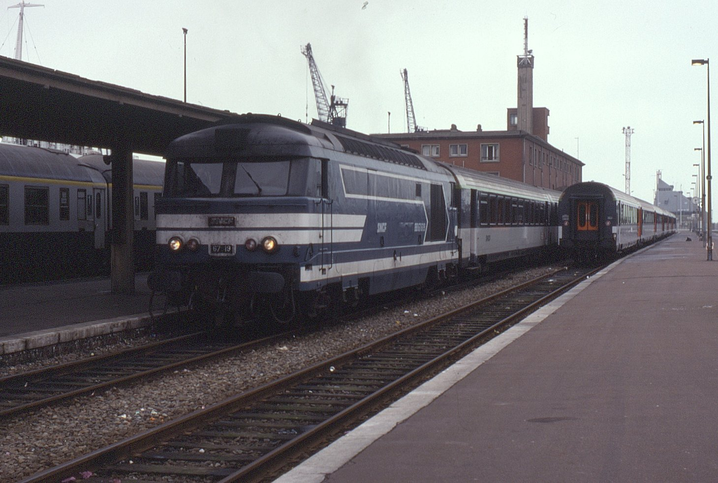 The starting point for so many European rail journeys up until the mid-1990s. Seen at Calais Maritime station on 5 February 1993, BB 67619 on train 2026, 15:00 Calais Maritime to Paris Nord. These trains, timed to connect with ferries from Dover (which usually had a non-stop Boat Train connection from London Victoria) were the staple power for these trains. Diesel traction would work through to Amiens where they were electric hauled to the French capital by a BB1600 class. By no means a busy day or season, hence the single loco, they were often double headed with longer rakes of familiar Corail stock. Calais Maritime closed to passenger traffic in January 1995 within a couple of months of the introduction of Eurostar services via the Channel Tunnel.